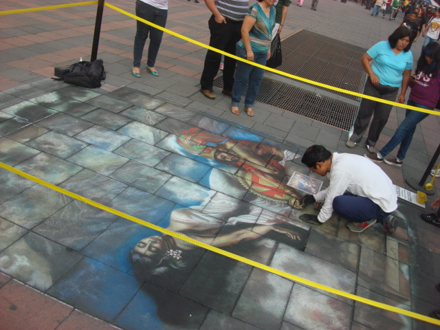 Mexican artist paints a picture in the streets of the Historical Center of Mexico City